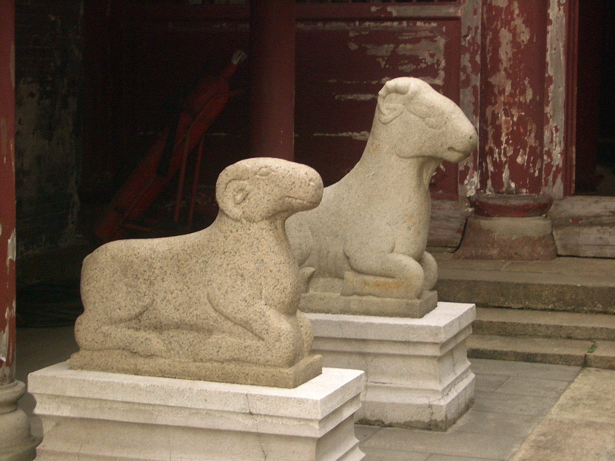 Temple of the Five Immortals (Wu Xian Guan) in Guangzhou. Ram statues right inside the front gate.